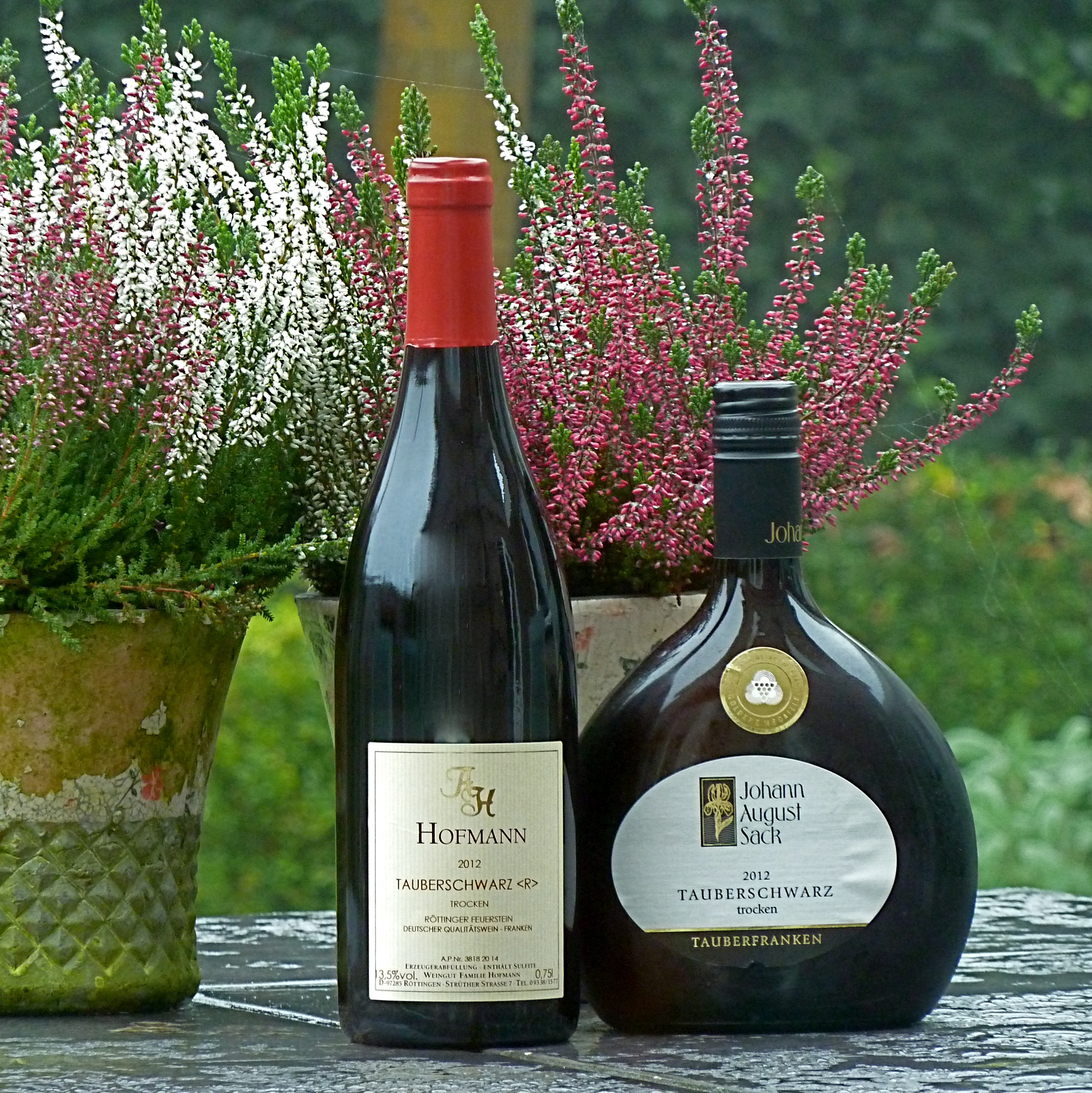 Two bottles Tauberschwarz